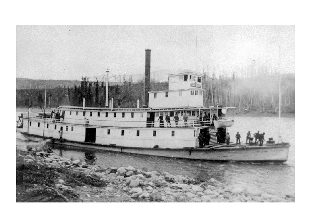 Photographer Unknown Photo taken 1901 Source BC Archives # B-01314 [1]